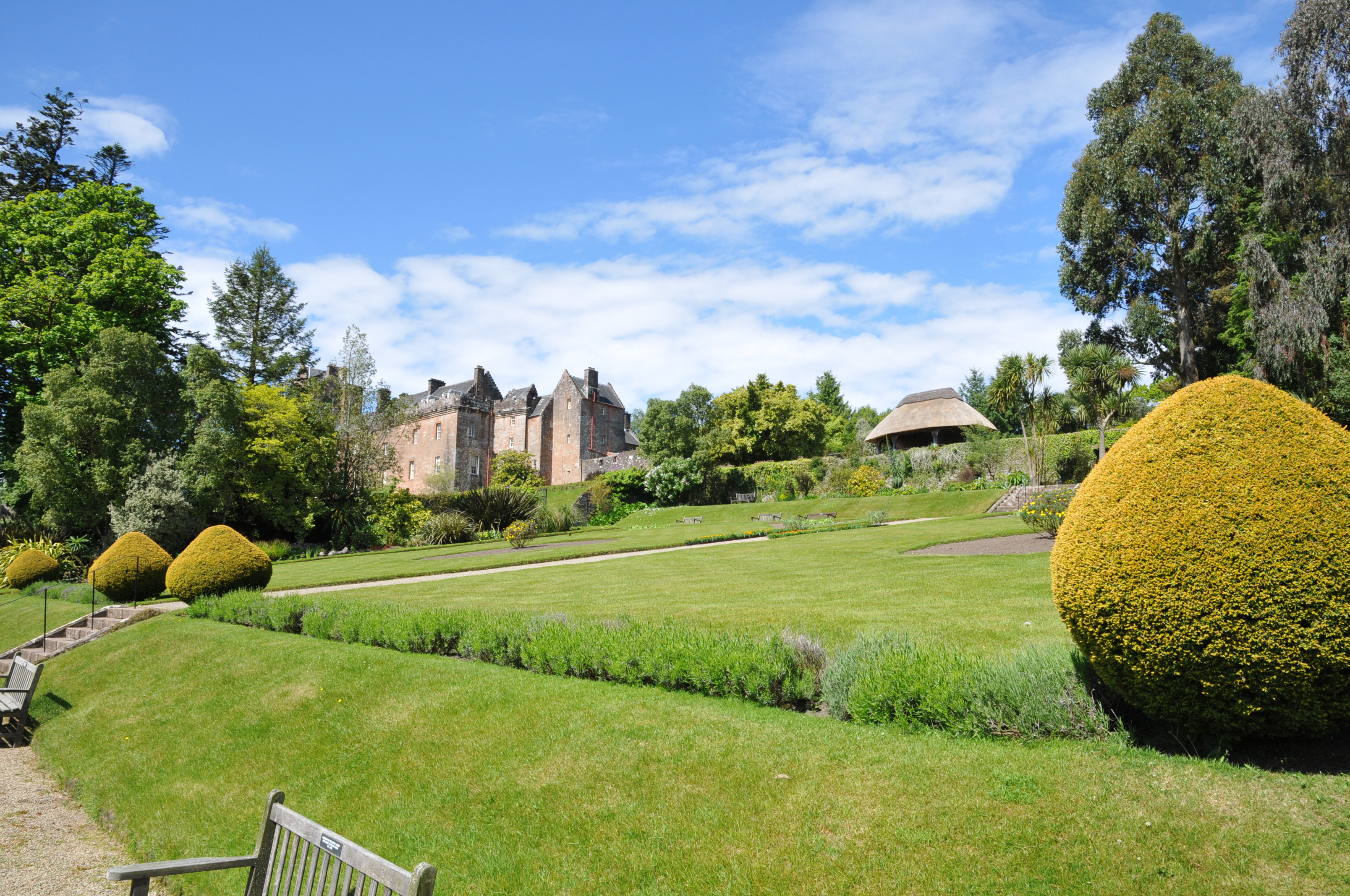 Brodick Castle Gardens